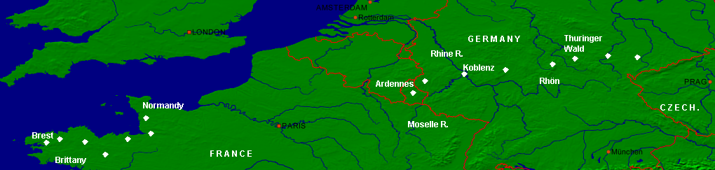 Route of March of the U.S. VIII Corps.Source of file is W. B. Wilson. Made with MapCreator 1.0 software.The maps created with MapCreator 1.0 can be used in all media and require no licence. for details.